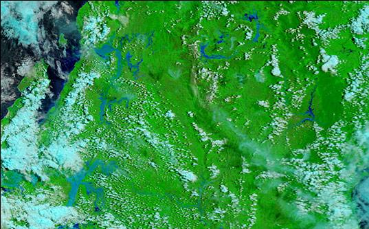 Cyclone Indlala hovered over northern Madagascar for the better part of three days after coming ashore on March 14, 2007, as a Category 3 storm. By March 18, the clouds had cleared enough to reveal the extensive flooding left in the storm’s wake. These images, captured by the Moderate Resolution Imaging Spectroradiometer (MODIS) on NASA’s Terra satellite, show the northern tip of the island country. The images were made with a combination of infrared and visible light, so that water is blue or black, clouds are pale blue and white, plant-covered land is green, and bare ground is tan. Rivers throughout the region are clearly swollen in the wake of the storm. The Xinhua News Agency reported that 14 people had died in the winds and floods, while approximately 14,000 people were affected.